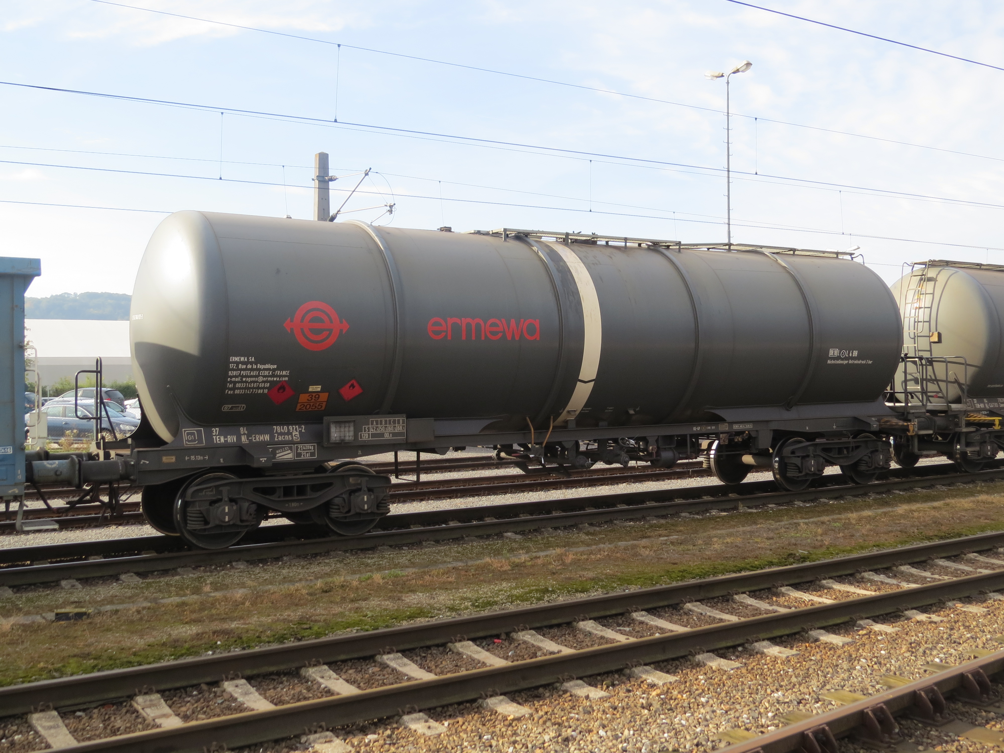 37 84 7840 921-2 at Bahnhof Pöchlarn with Styrene